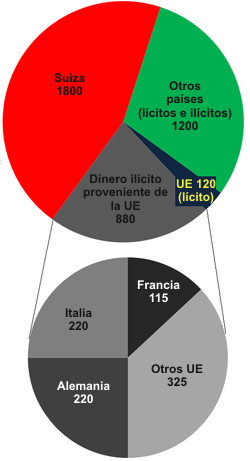 Banca suiza.